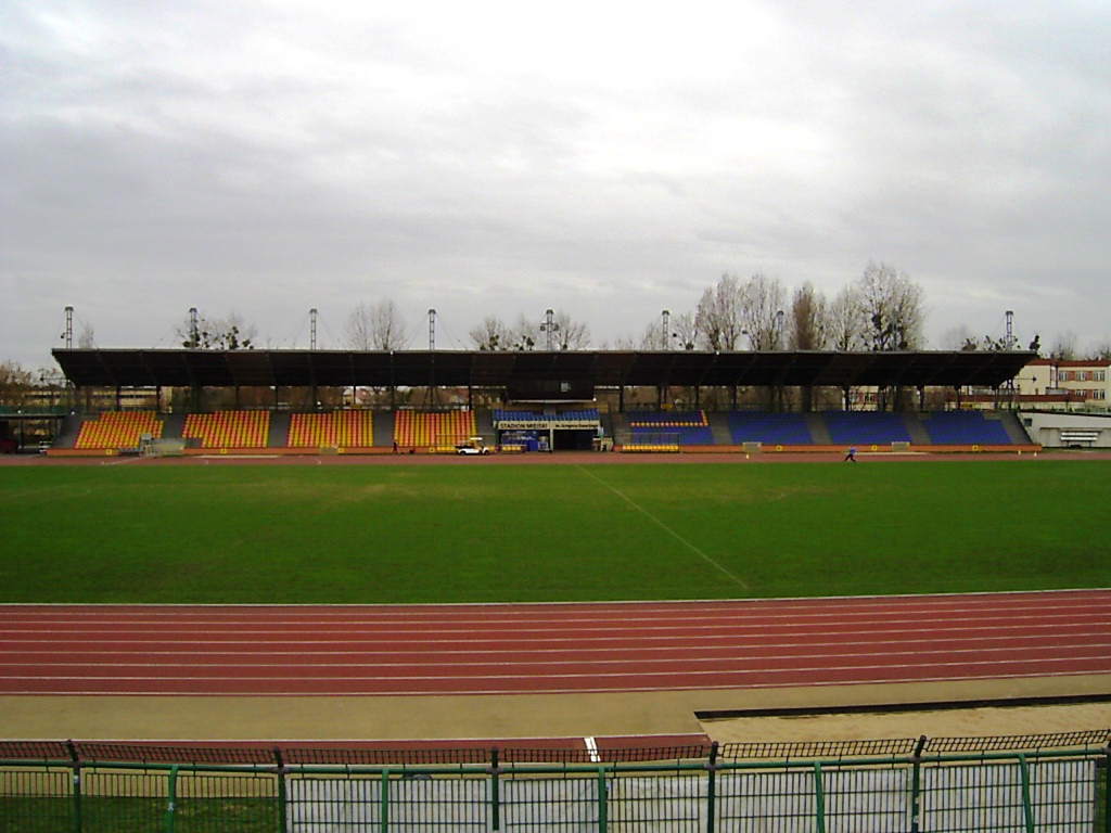 Main stand Torun city Stadium